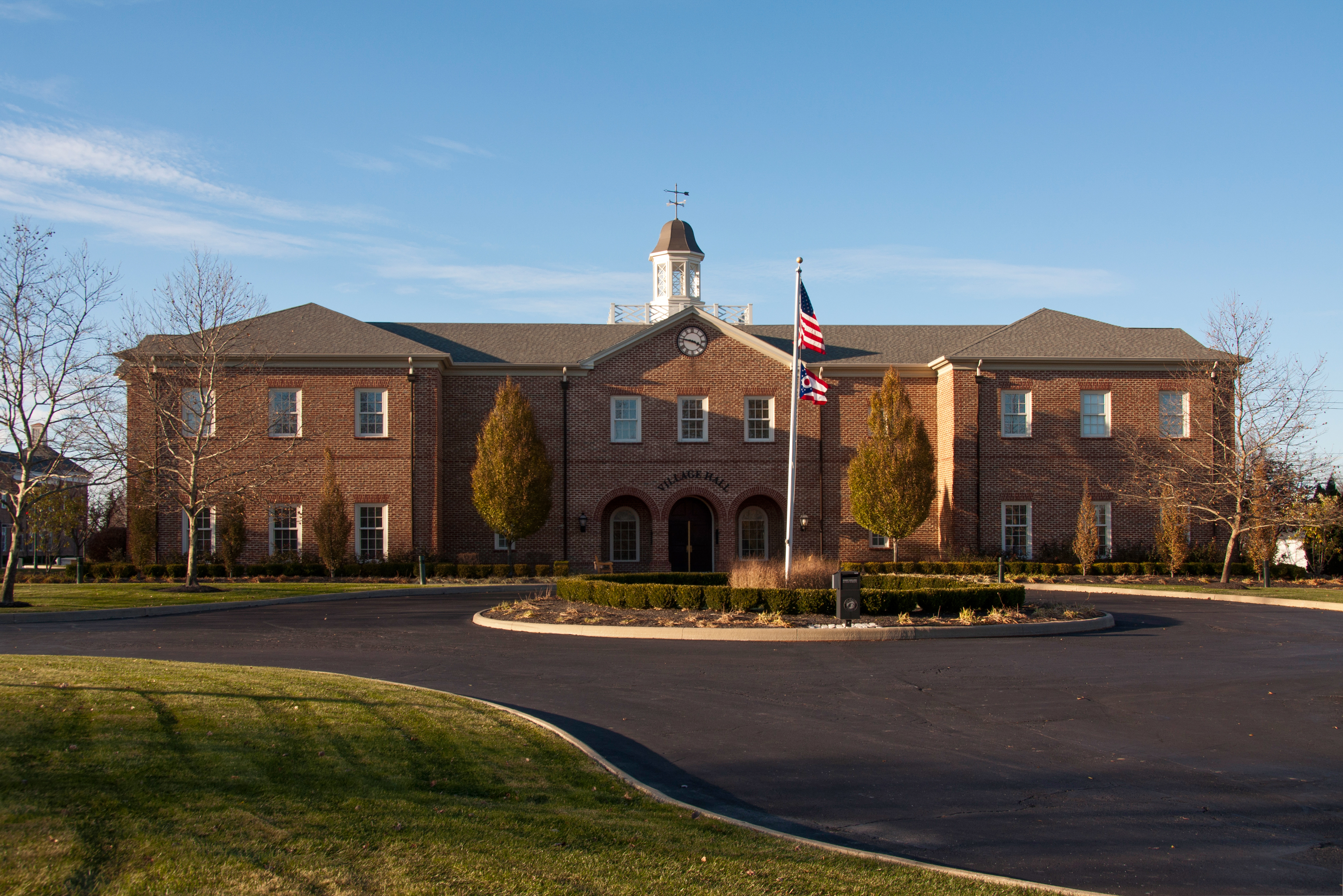 New Albany, Ohio City Hall taken from the southwest.